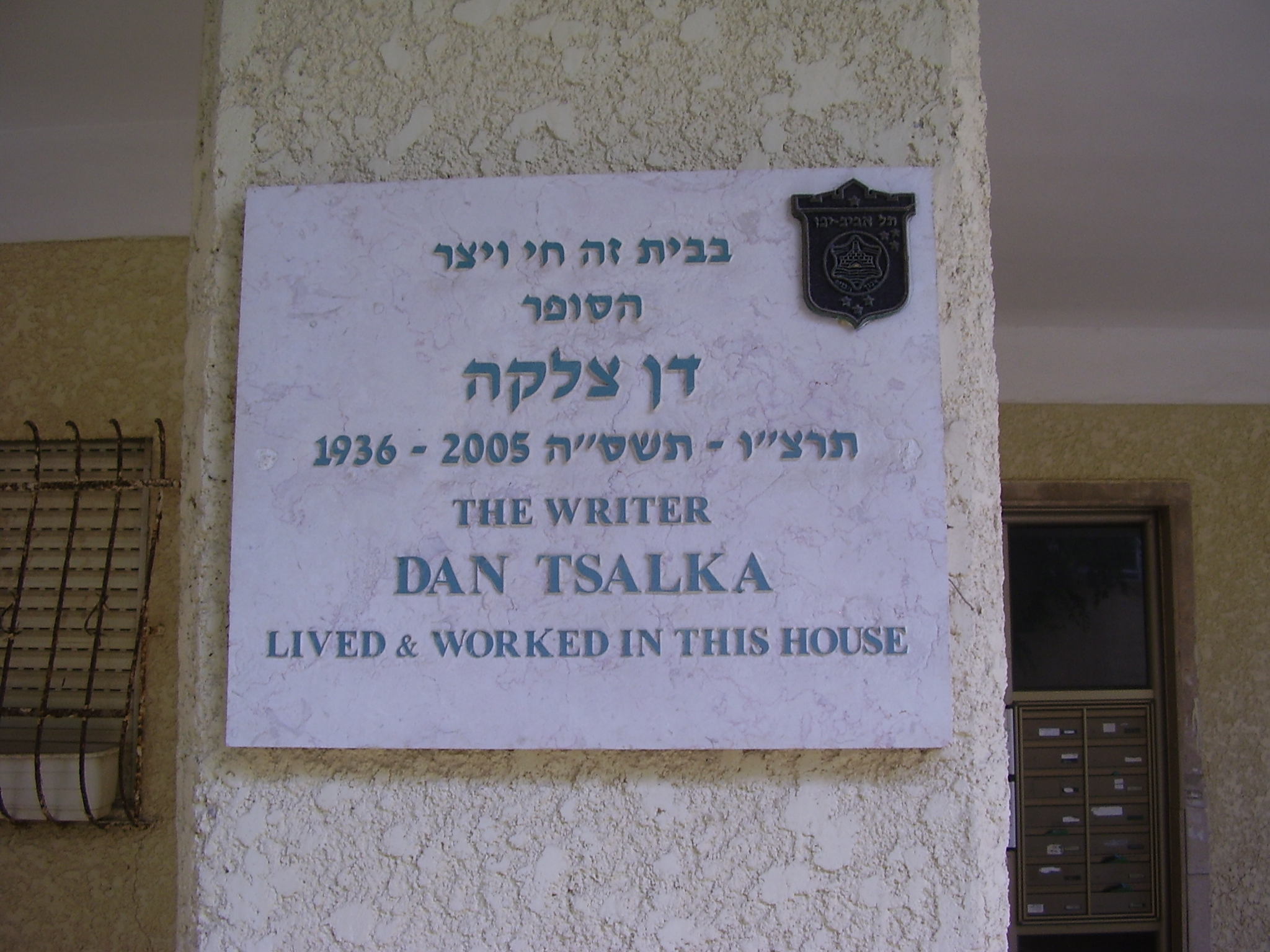 plaque memorial to the writer dan tsalka in tel aviv לוחית זיכרון לסופר דן צלקה ברחוב יהואש 11 בתל אביב